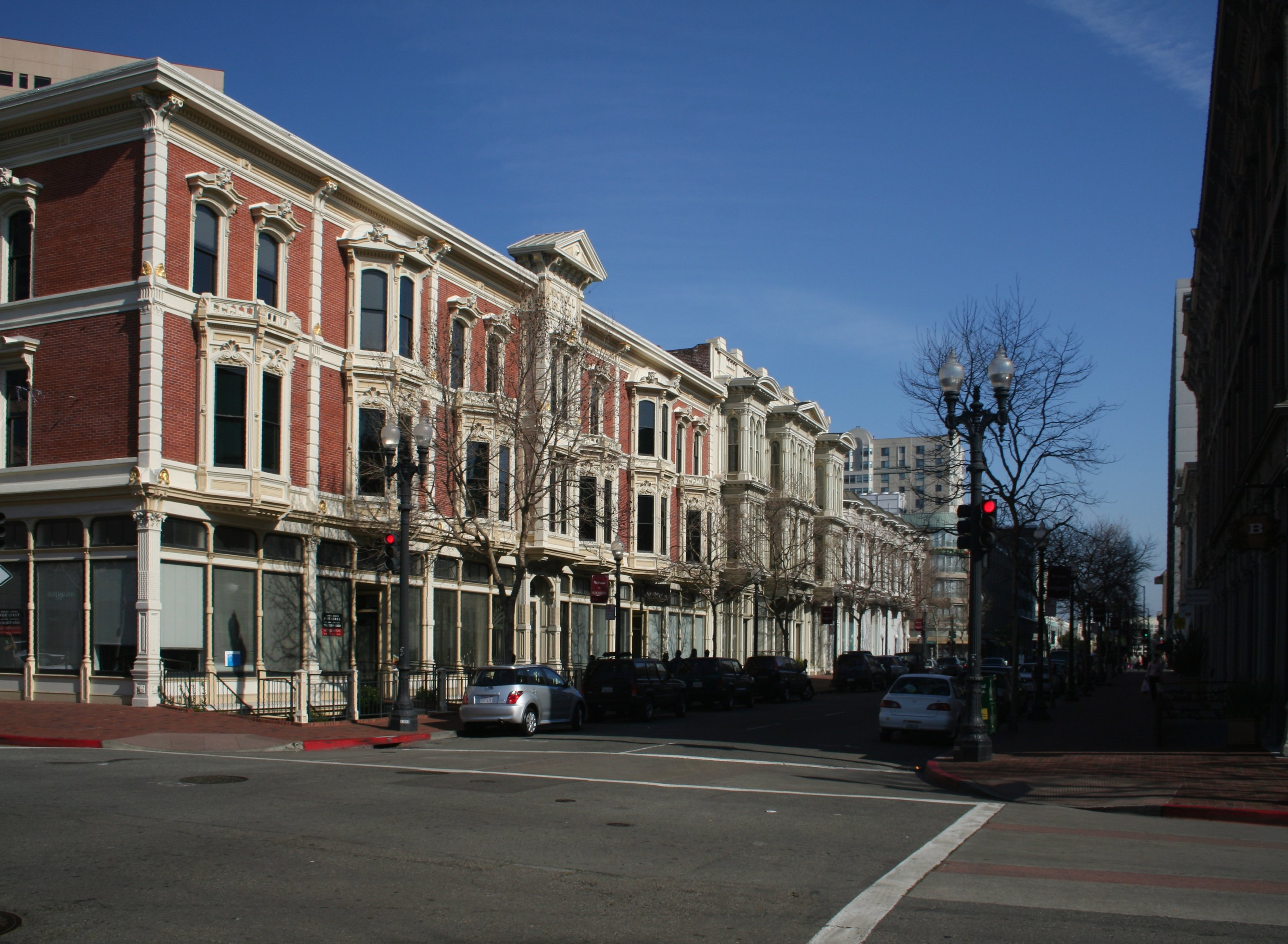 Buildings in Old Oakland. Photographed by and copyright of (c) David Corby (User:Miskatonic, uploader) 2006